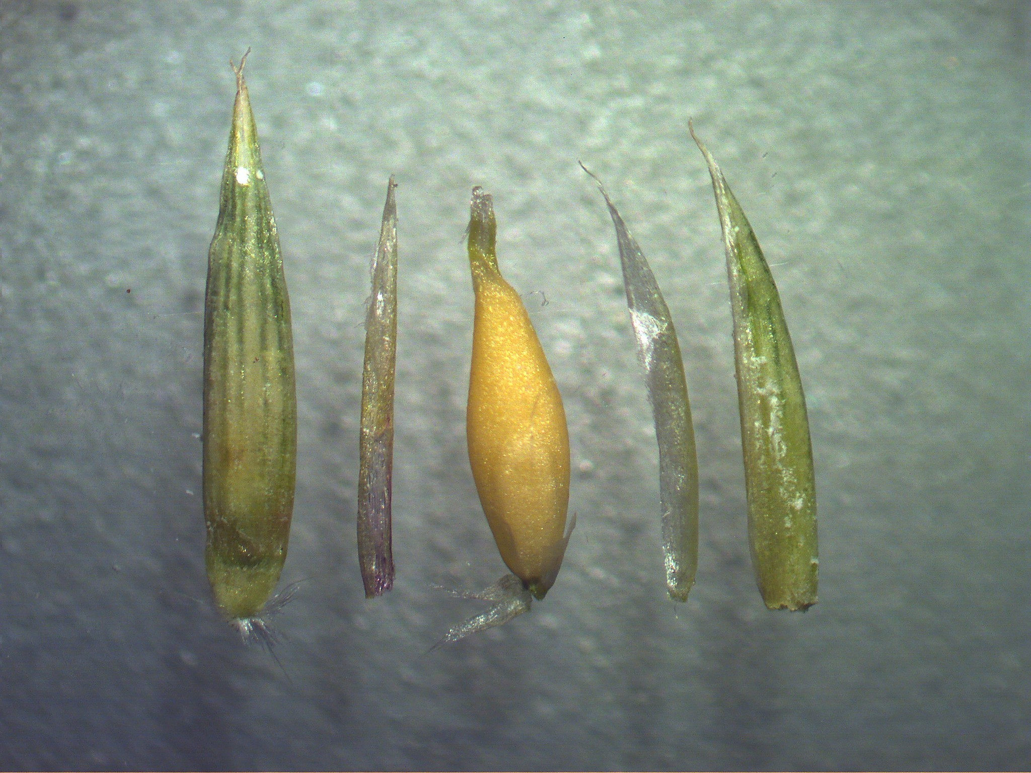 Native, warm season, perennial, tufted grass to 120 cm tall. Fresh leaves are hairless and often lemon-ginger scented when crushed. Flowerheads are narrow spatheate panicles 10-45 cm long; clusters of short, nearly hairless, paired branches that bend downwards as they mature, giving the flowerhead a barbed-wire appearance. Spikelets are paired and awnless; one unstalked; the other stalked. Flowers in summer. Found in low fertility situations such as roadsides, native pastures, woodlands and forests. Very drought tolerant, but readily frosted. Native biodiversity. An indicator of low fertility soils. Production and feed quality is low to moderate, and palatability is highly variable. Unresponsive to fertiliser and its abundance declines with increasing fertility. Abundance declines under frequent close grazing. Persists best under rotational grazing and/or light stocking; especially if it includes a rest from grazing in early autumn.